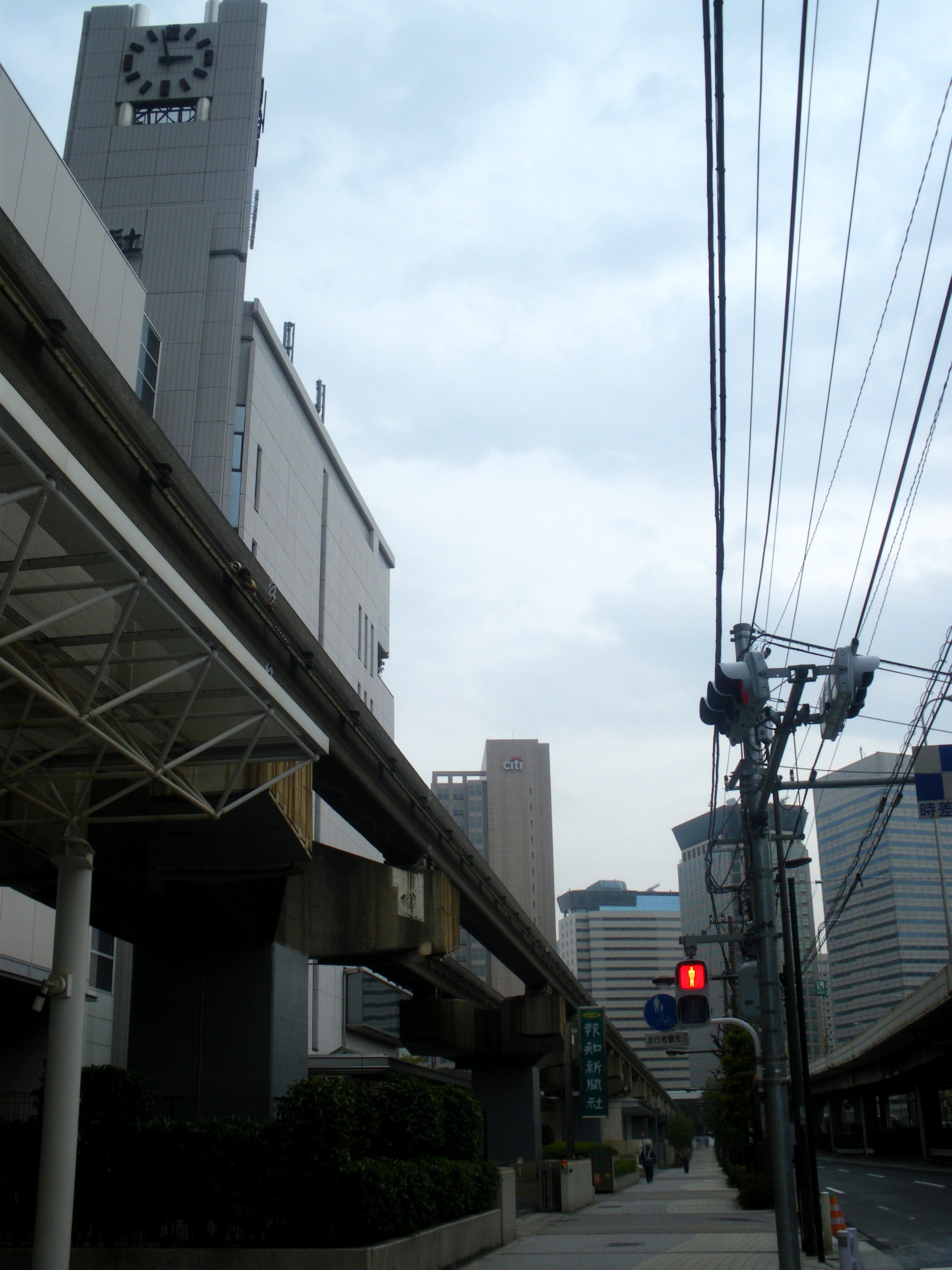 Hochi Shinbun head office(Konan,Minato,Tokyo)